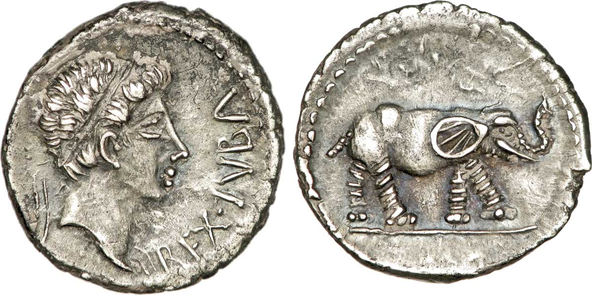 Royaume de Mauritanie, Denier à l'effigie de Juba II Date : c. 20 AC. - AD. 20 Nom de l'atelier/ville : Maurétanie, Césarée